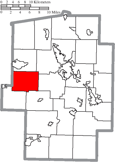 Map of the municipal and township boundaries of Tuscarawas County, Ohio, United States, as of the 2000 census, with the location of Auburn Township highlighted. Township borders are shown only in unincorporated areas in order to differentiate incorporated and unincorporated areas more clearly.